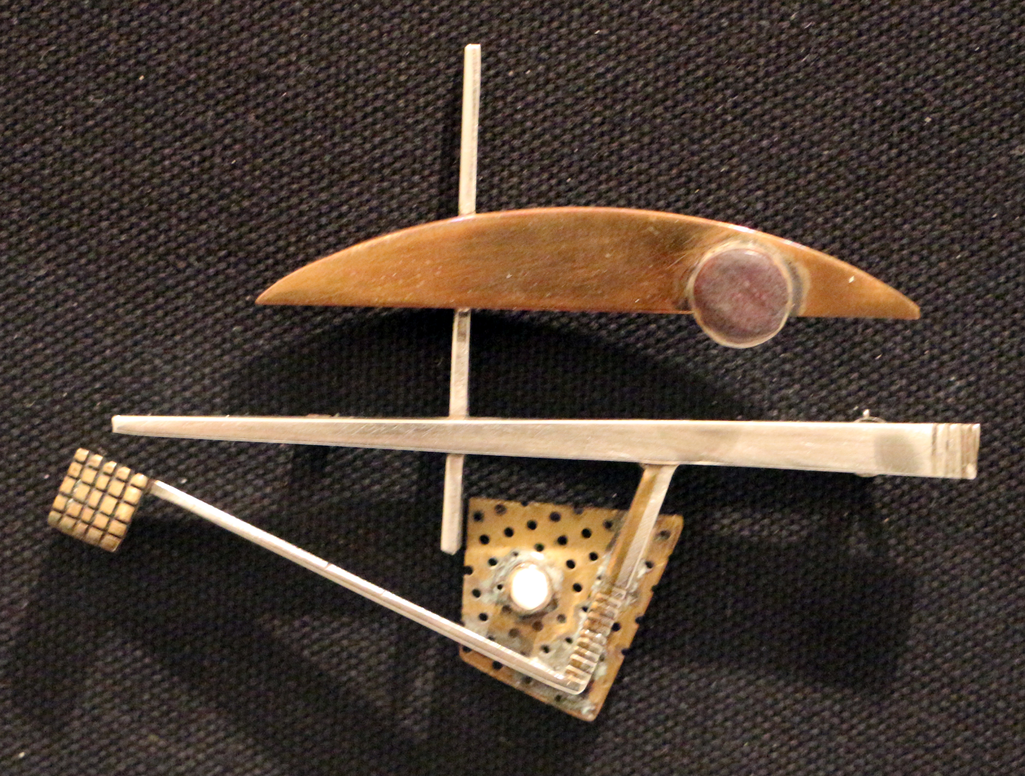 Metalware in the Milwaukee Art Museum